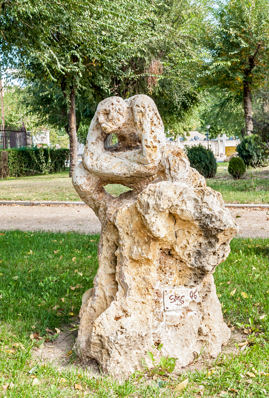 Estatua en un parque de Guadalix de la Sierra.